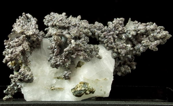 Safflorite and Calcite - Locality: Bouismas Mine, Bouismas, Bou Azzer District, Tazenakht, Ouarzazate Province, Souss-Massa-Draâ Region, Morocco - Size of specimen 4.7 cm